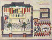 5th panel of the Wangseja iphakdocheop, showing the Korean crown prince starting his studies at the Songgyungwan academy.